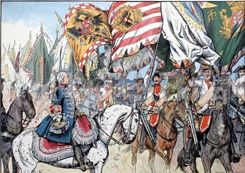 After the Battle of Hohenfriedberg